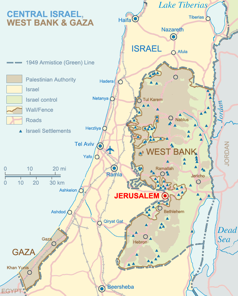 Modified file based on File:West Bank & Gaza Map 2007 (Settlements).png by HowardMorland, with additional coastal cities and Ramla.